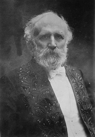 Théodule-Armand Ribot, French psychologist